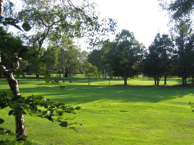 Robin Hood Golf Course. A pleasant green and wooded area completely surrounded by suburban Birmingham and Solihull.